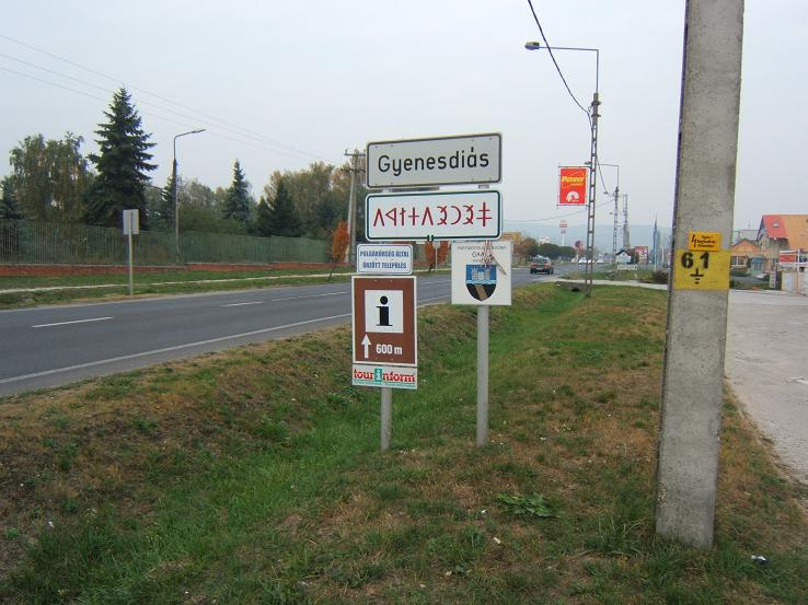 City limit table in Gyenesdiás, Hungary. Latin and traditional Hungarian letters (rovas)